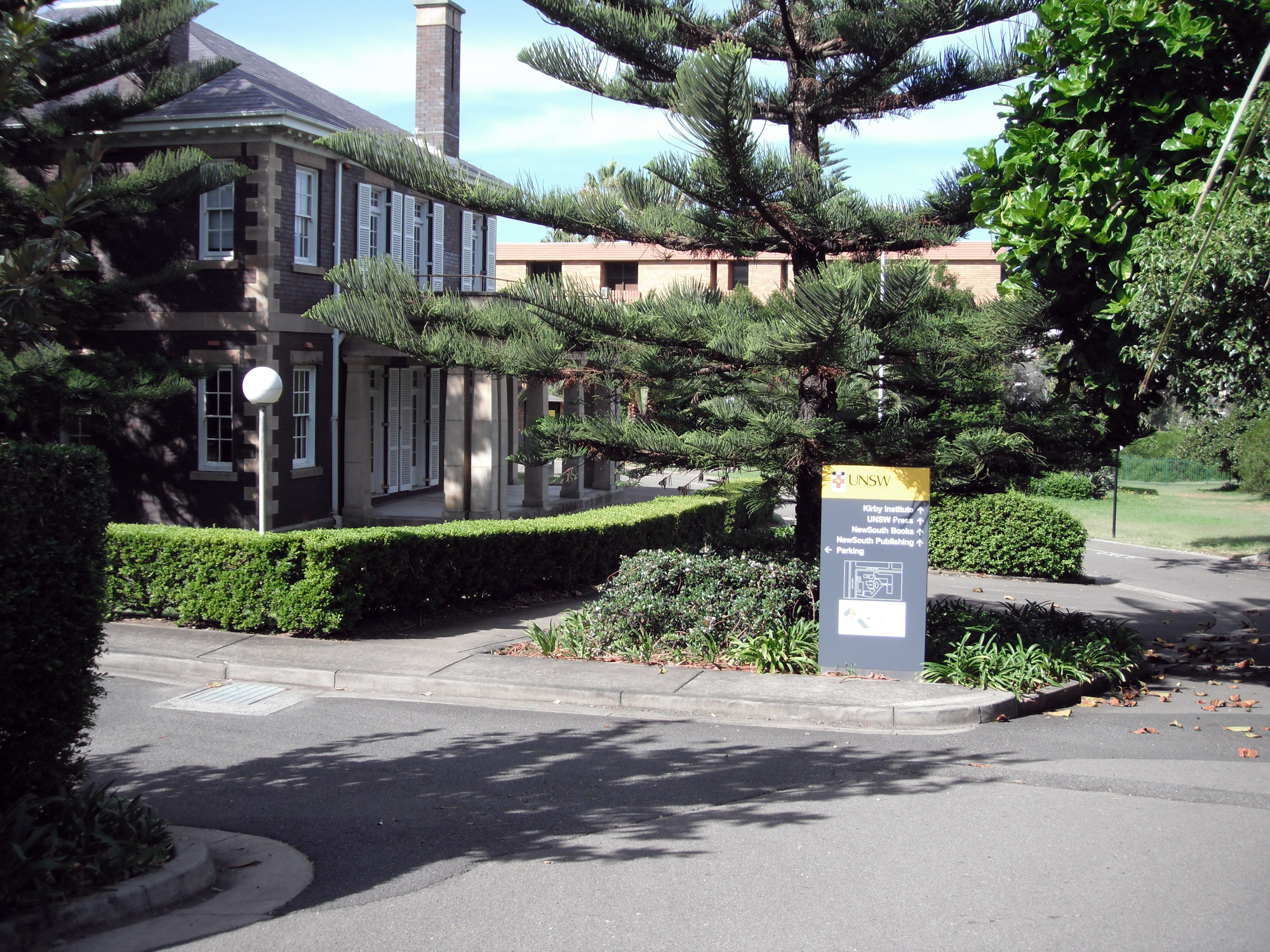 Cliffbrook House, UNSW college, corner Beach and Battery Streets, Coogee NSW